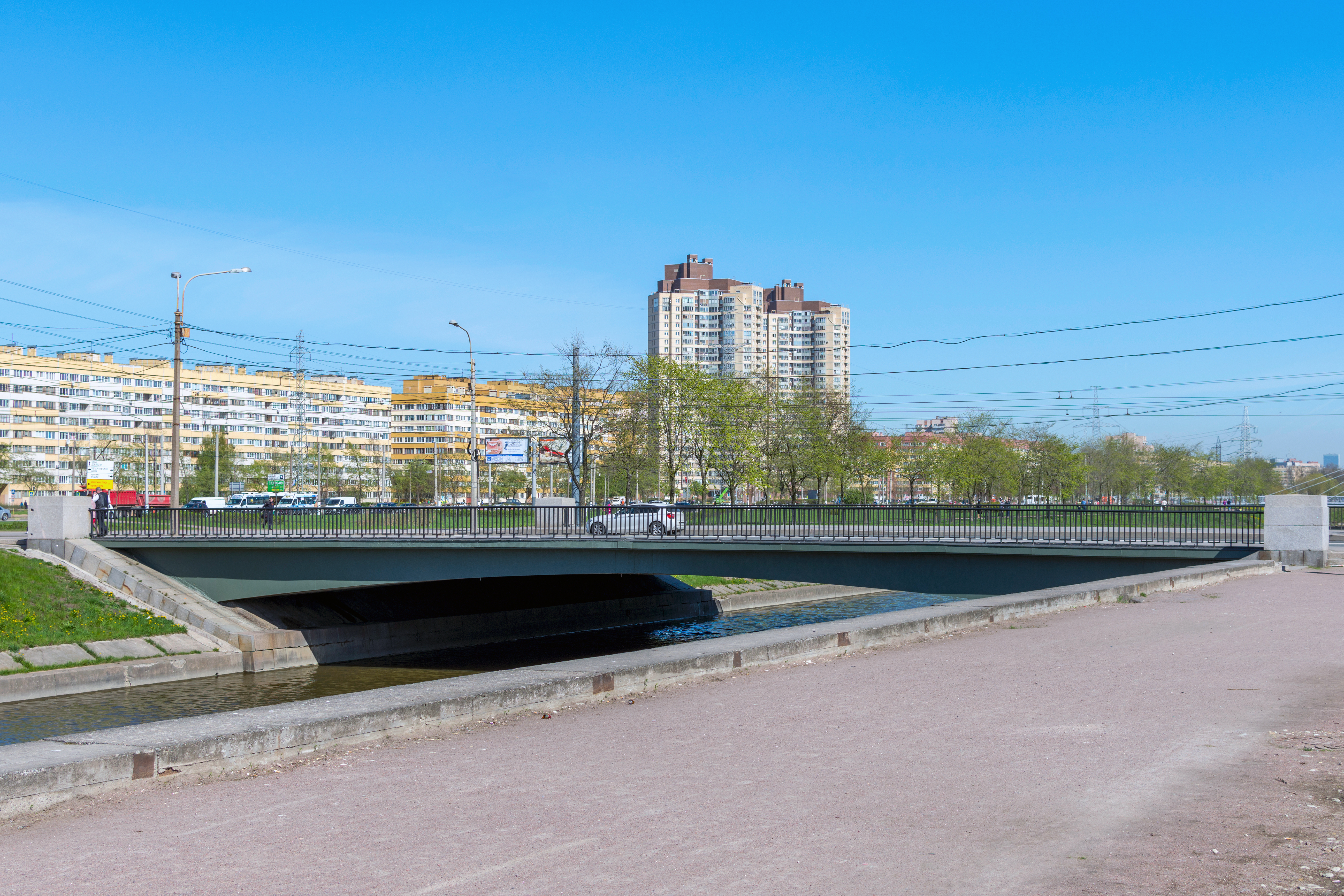 Partizana Germana Bridge in Saint Petersburg